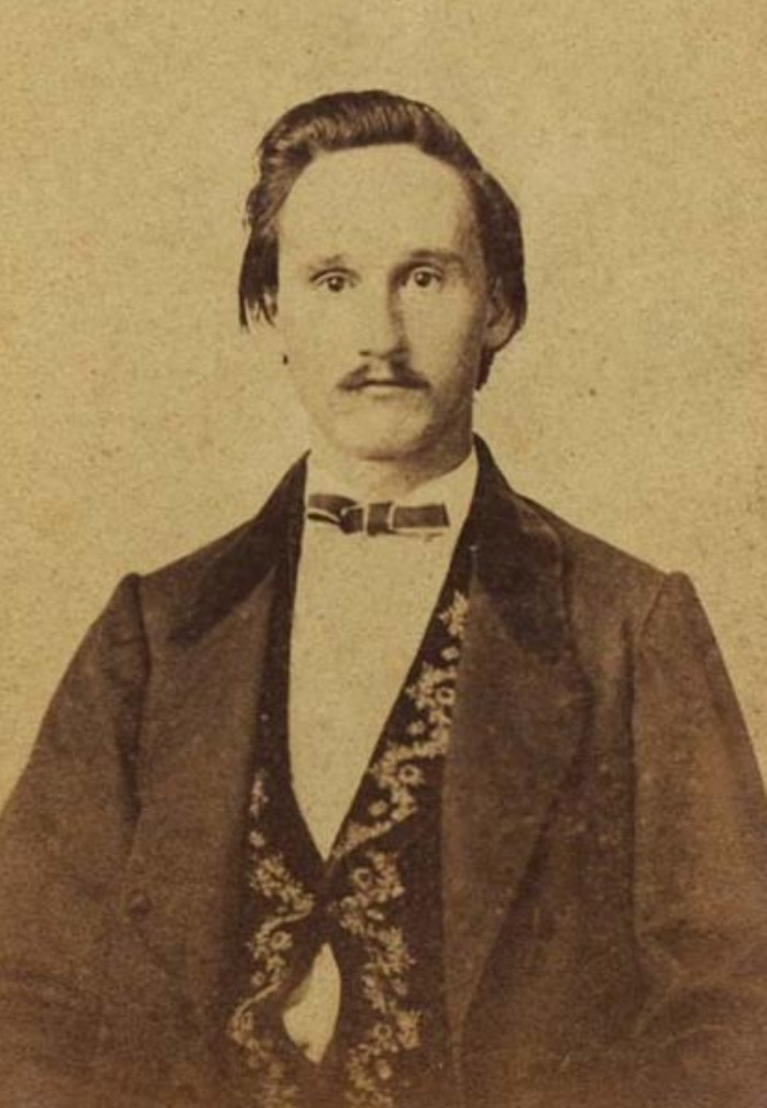 Col. E. L. Vaughan, C.S.A.